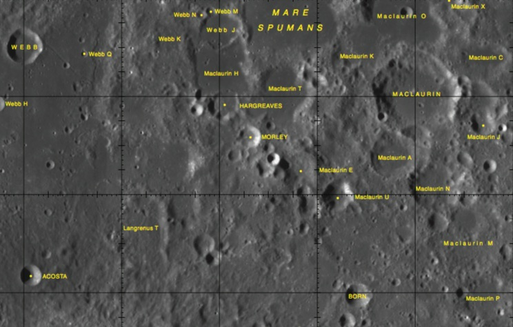 Part of the chart LAC-74